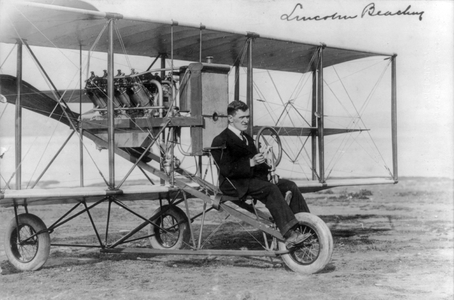 Lincoln Beachey seated at controls of his airplane.